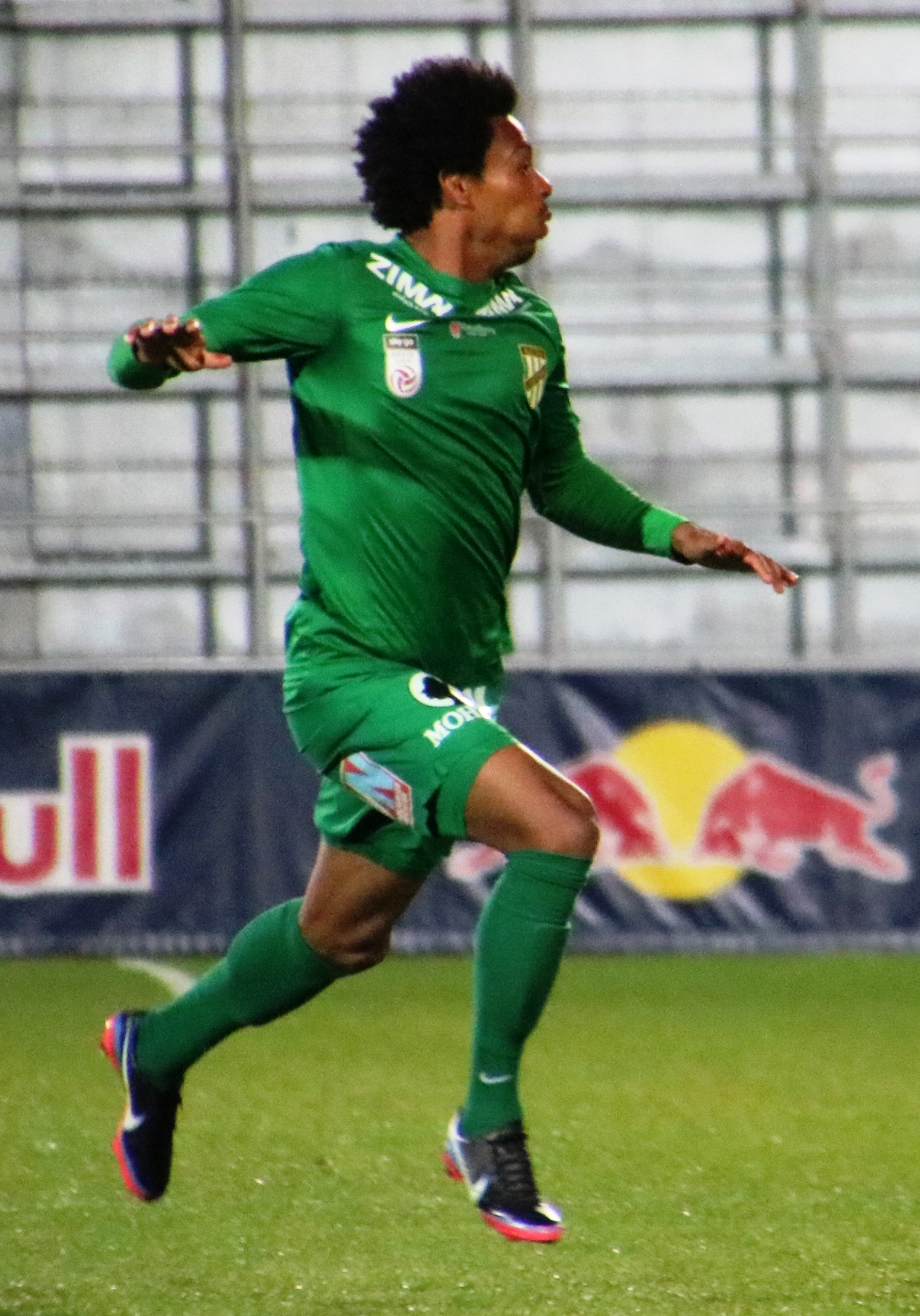 league match Austria 2nd league